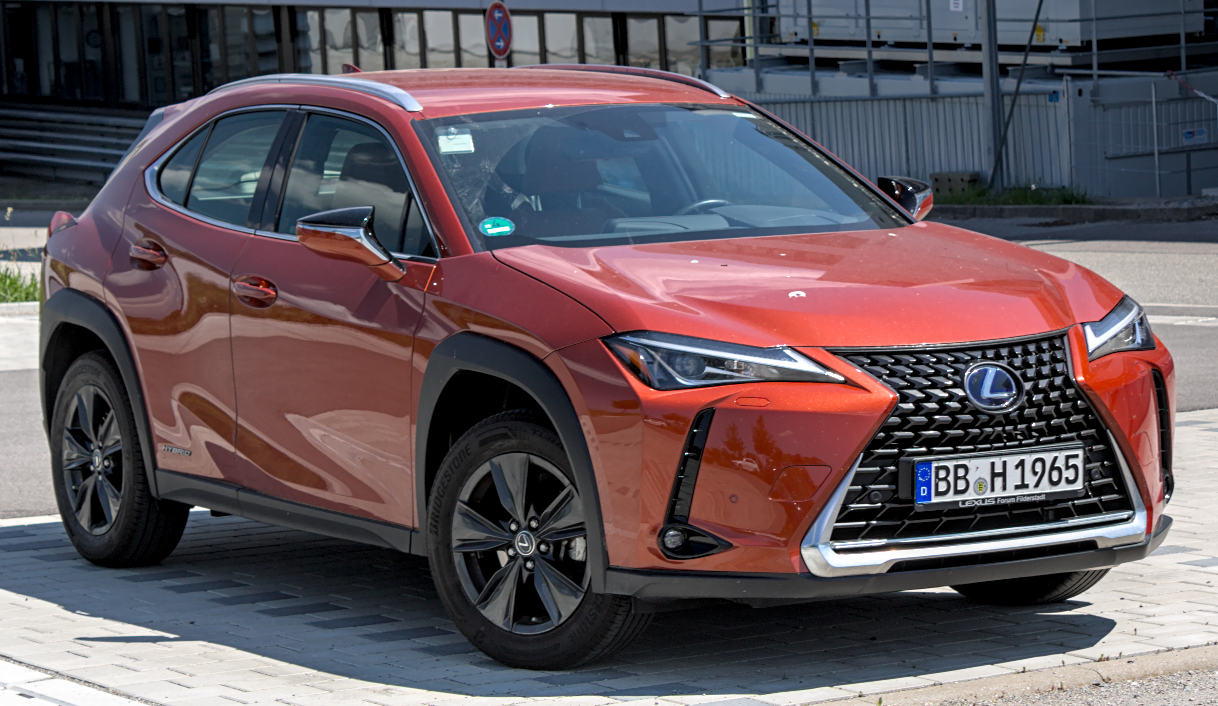 Lexus_UX_250h in Herrenberg